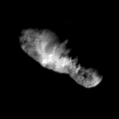 In this high resolution view of the icy, rocky nucleus of comet Borrelly, (about 45 meters or 150 feet per pixel) a variety of terrains and surface textures, mountains and fault structures, and darkened material are visible over the nucleus's surface. This was the final image of the nucleus of comet Borrelly, taken just 160 seconds before Deep Space 1's closest approach to it. This image shows the 8-km (5-mile) long nucleus about 3417 kilometers (over 2,000 miles) away.